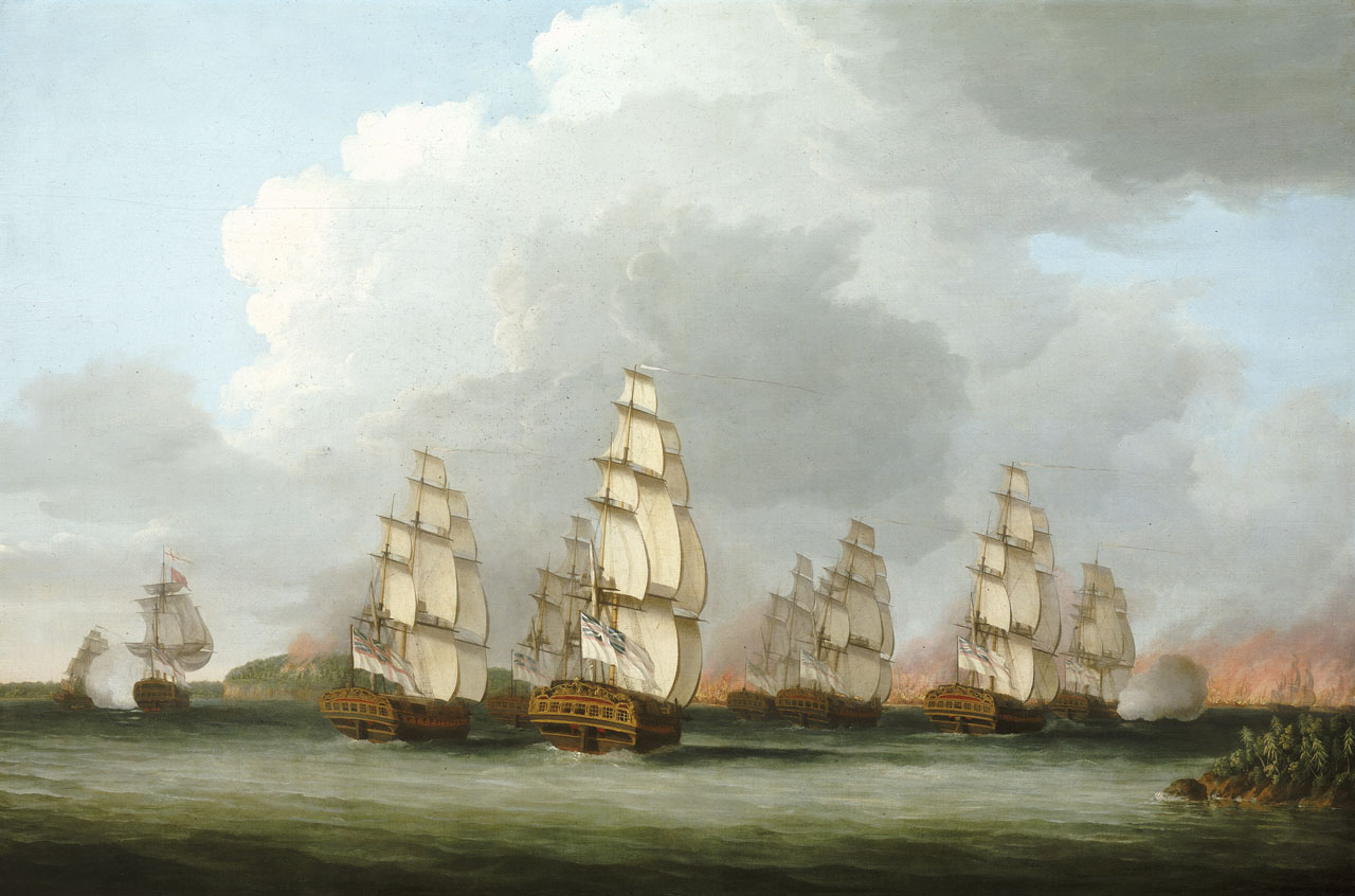 This is a depiction of naval action in the American Revolutionary War's 1779 Penobscot Expedition.